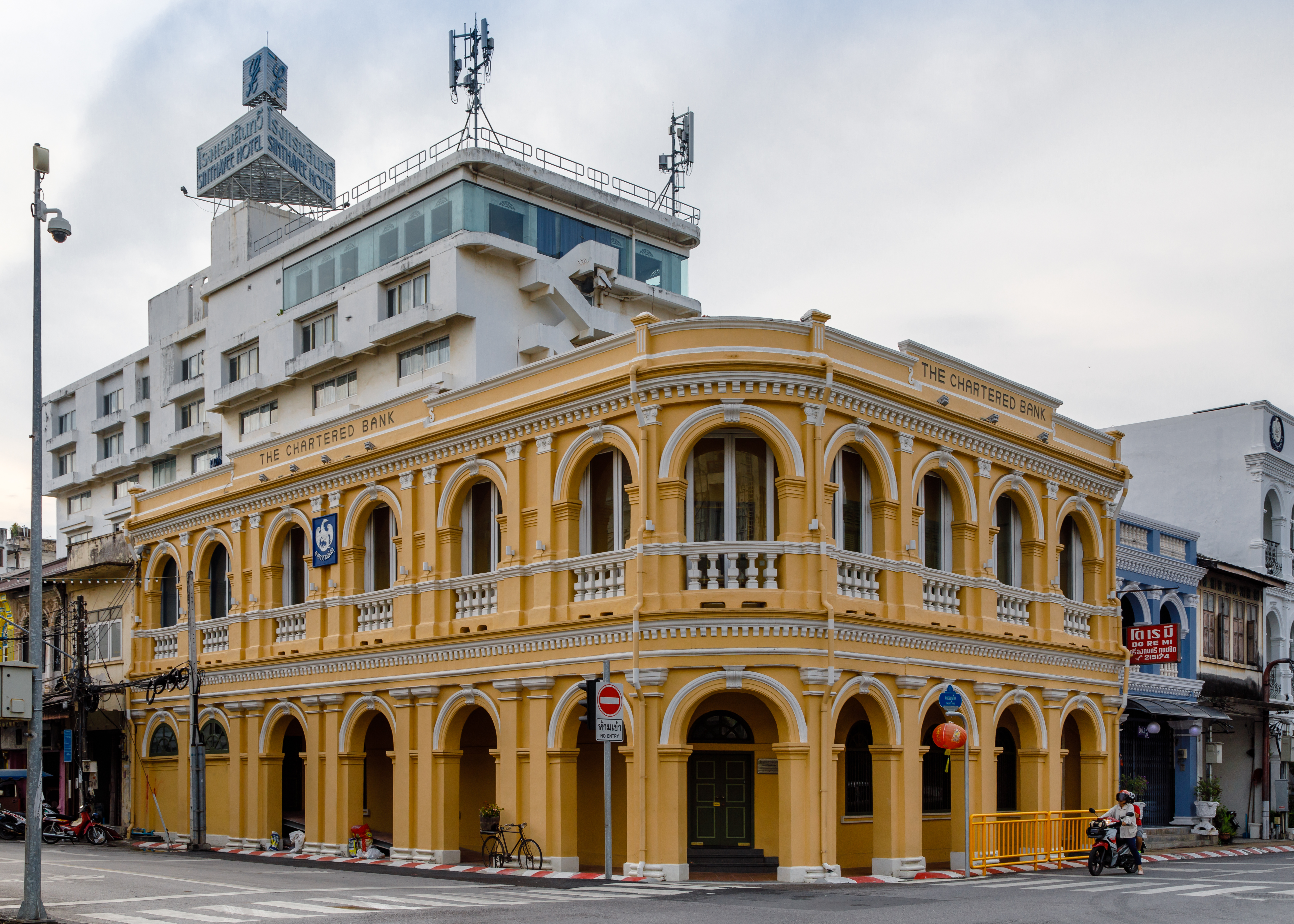 Phuket, Thailand: Baba Museum Phuket Town